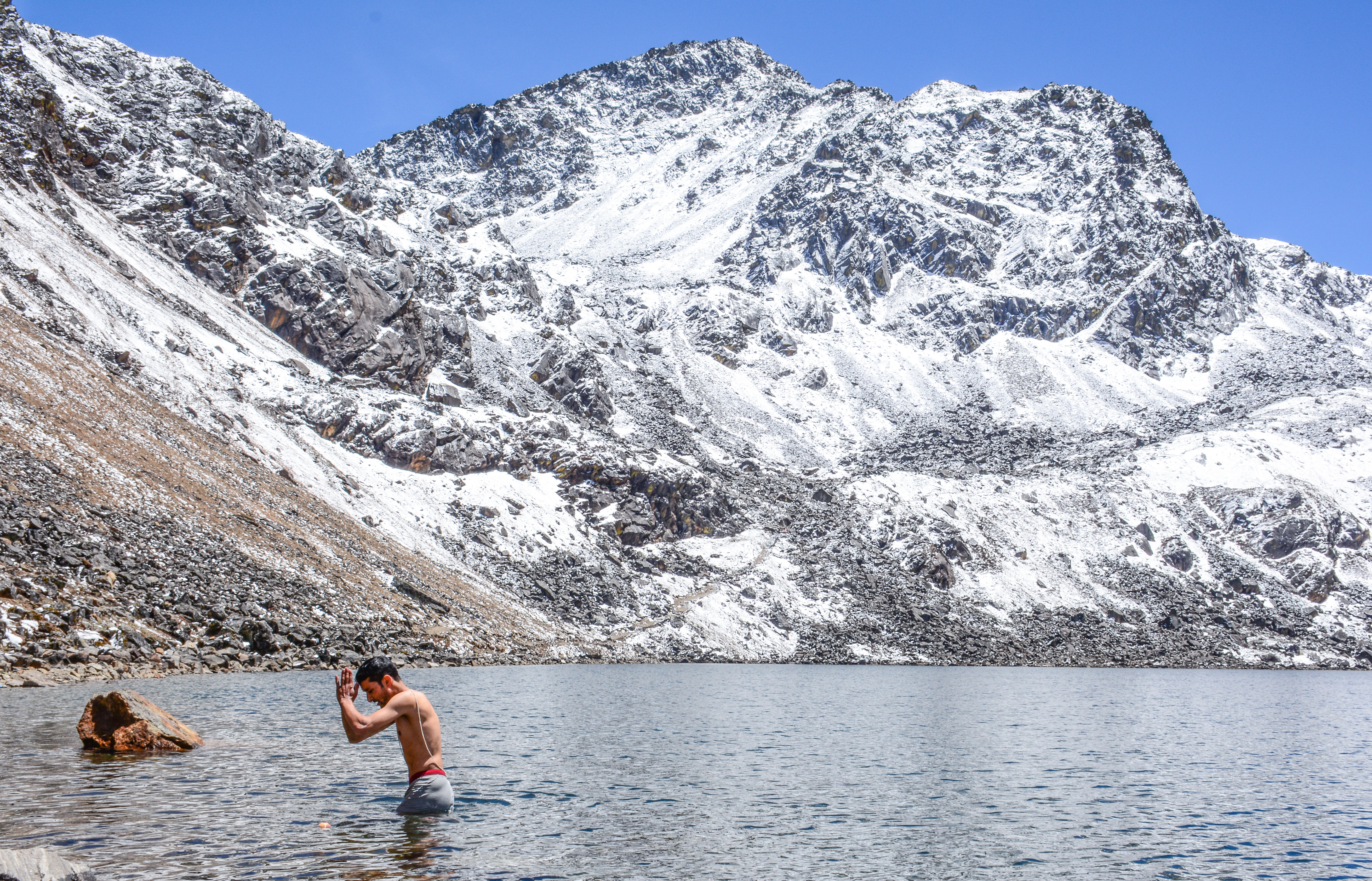 A devotee takes a plunge in the holy lake of Gosainkunda, Rasuwa